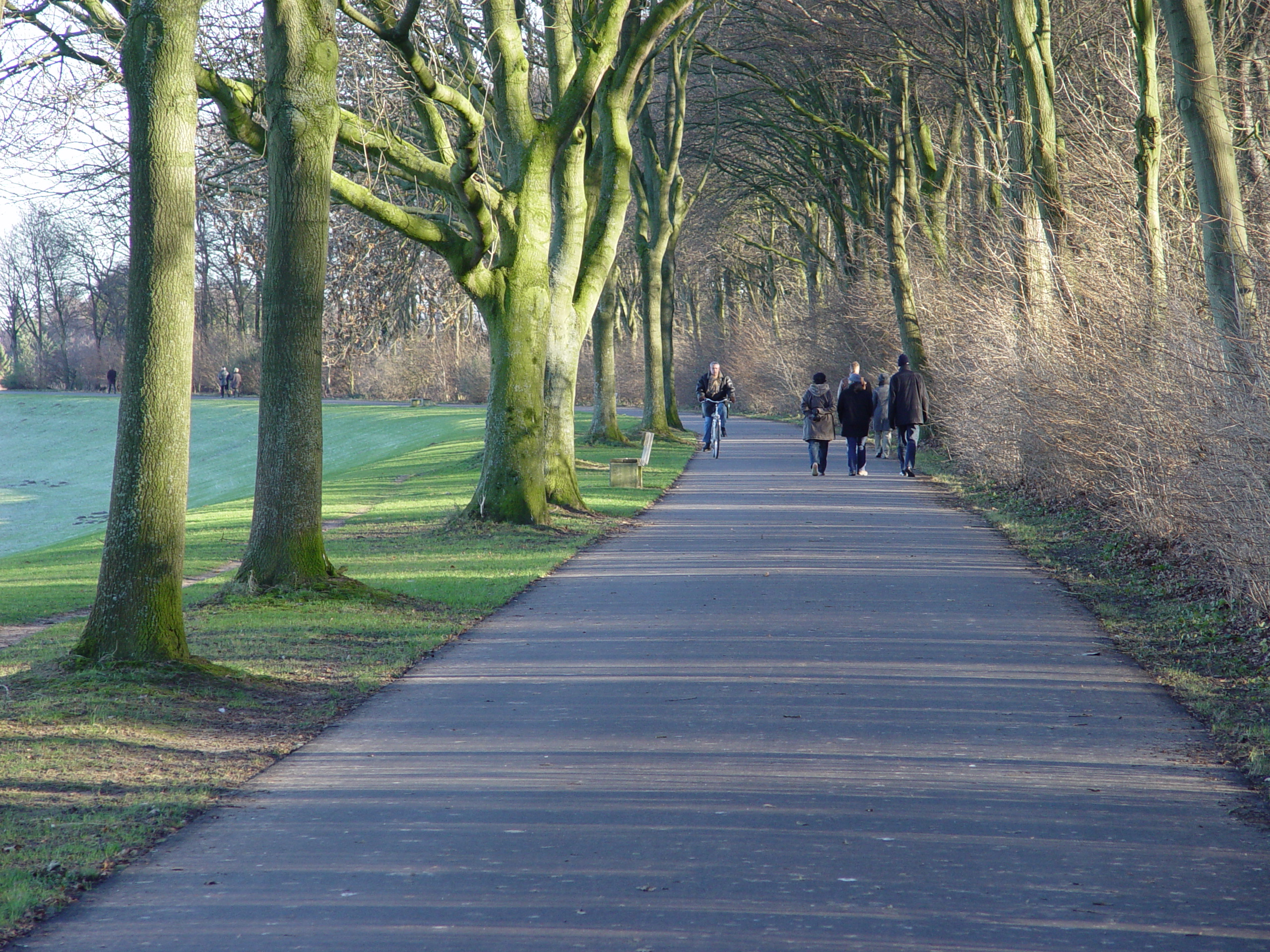 Bremen Werdersee: Habenhauser dike in winter